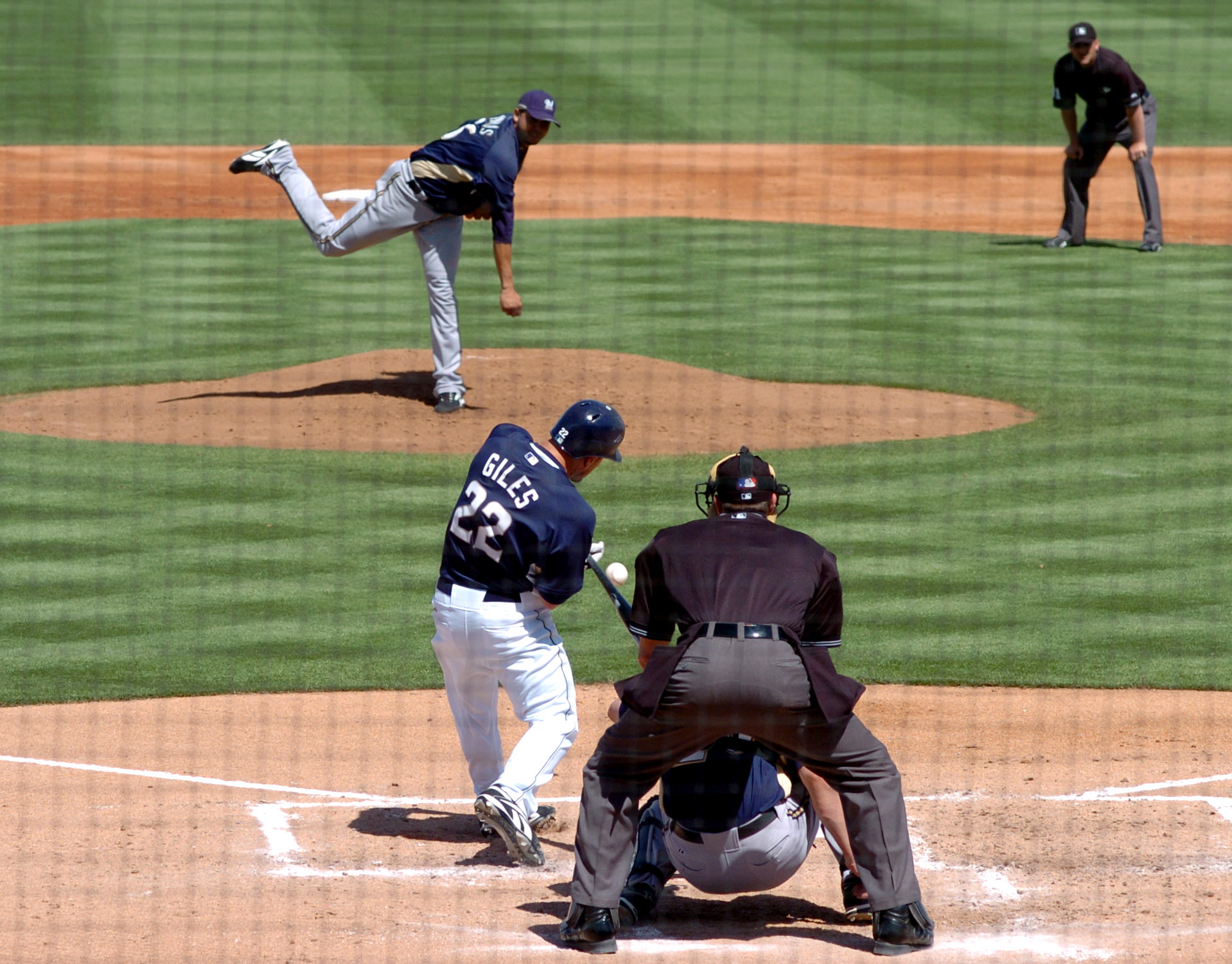 The city of Peoria, Ariz., and the Peoria Sports Complex played host to Air Force Week during a 2007 spring training baseball game between the San Diego Padres and the Milwaukee Brewers.